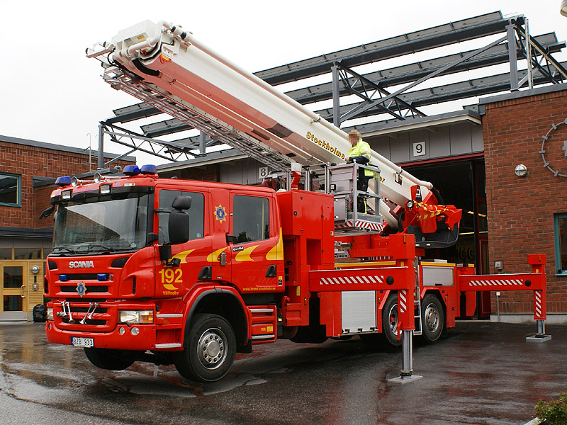 Fire engine, Scania P380DB6X2*4HLB, height vehicle, in Stockholm Sweden